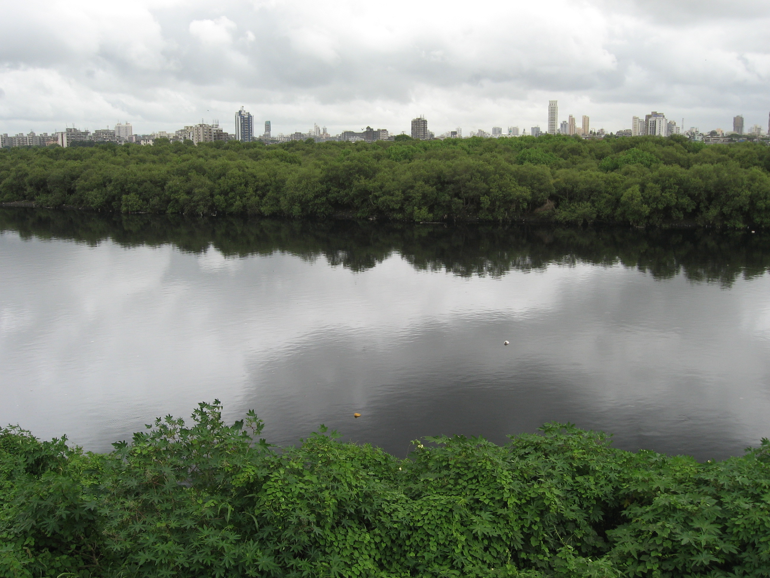 The River Mithi that separates suburban and city districts of Mumbai